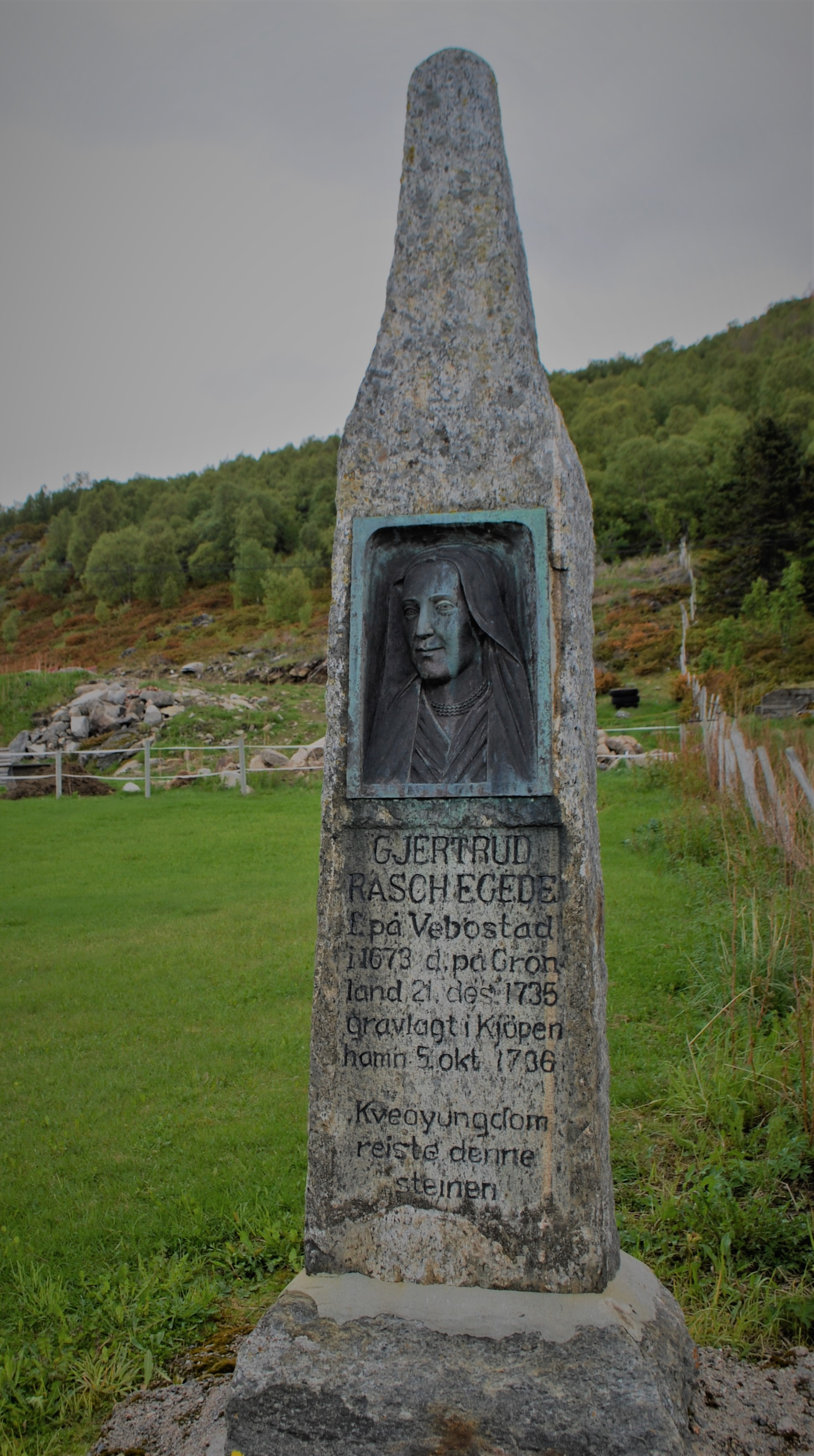 Gjertrud Rasch, Kveøya, Norway